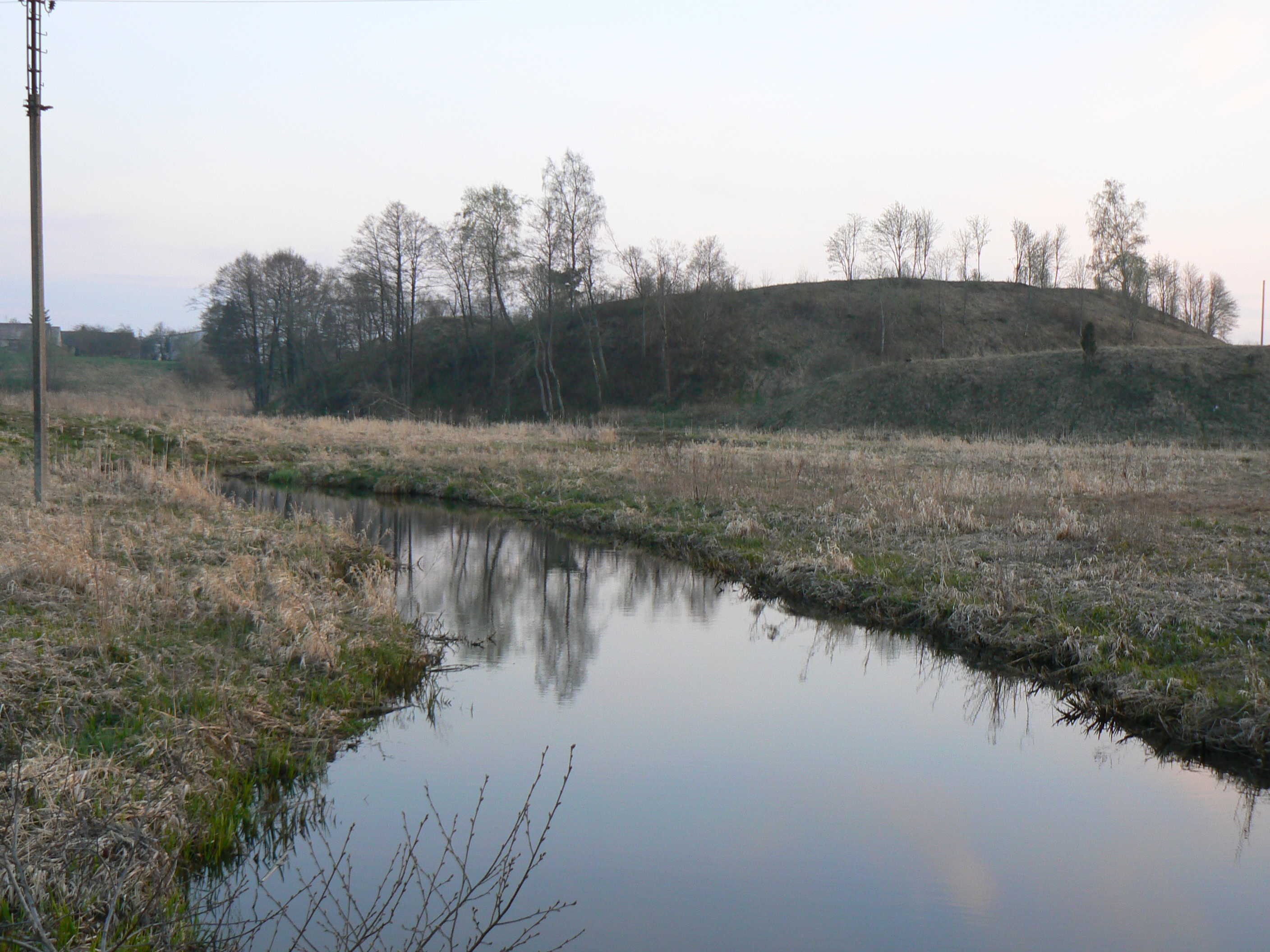 River Įpiltis near Hillfort Įpiltis